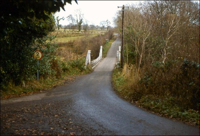 Ballievey Bridge near Banbridge (2). See 535018. The original suspension bridge, looking in the opposite direction (towards the Castlewellan Road).